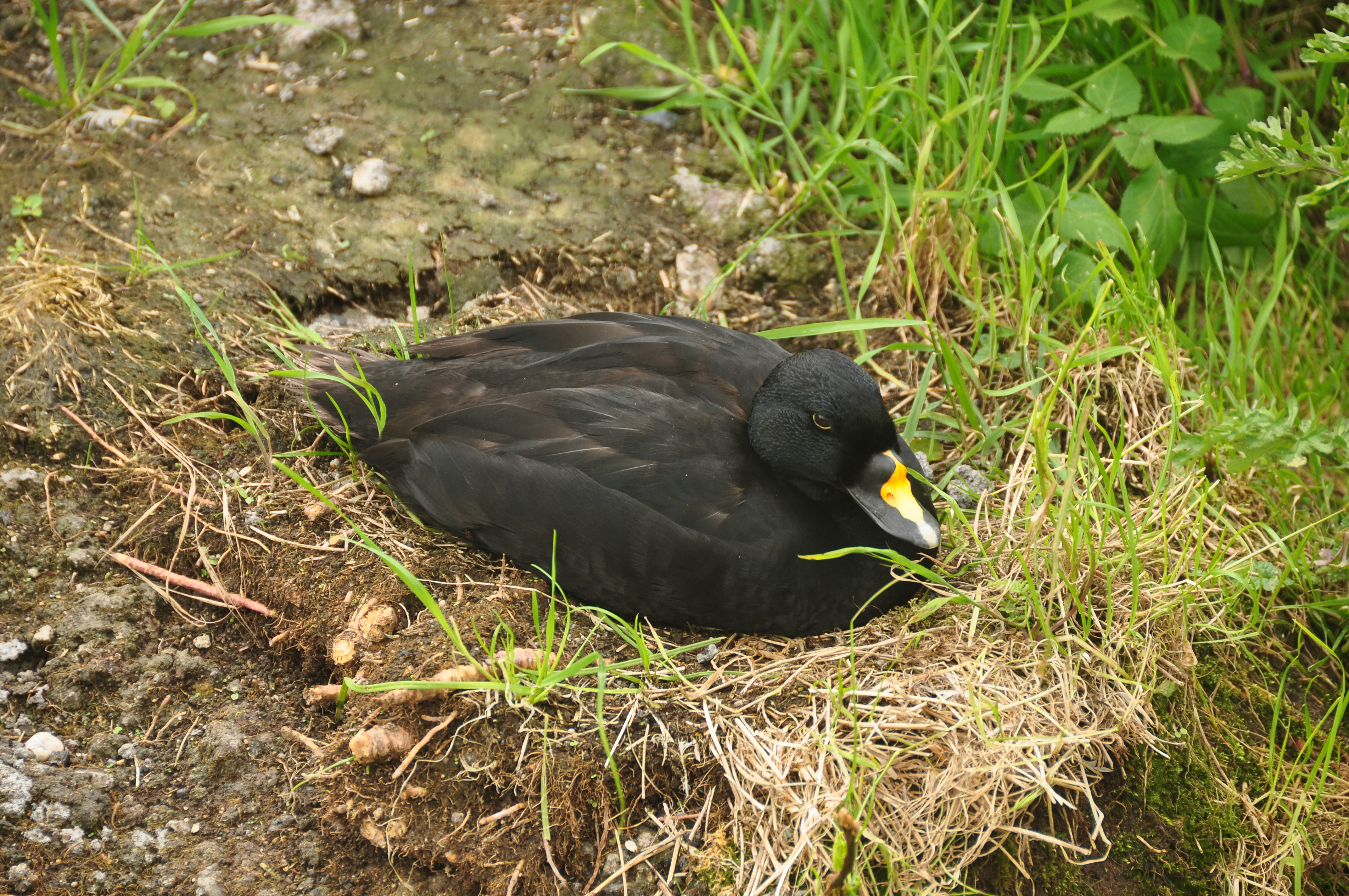 WWT Arundel